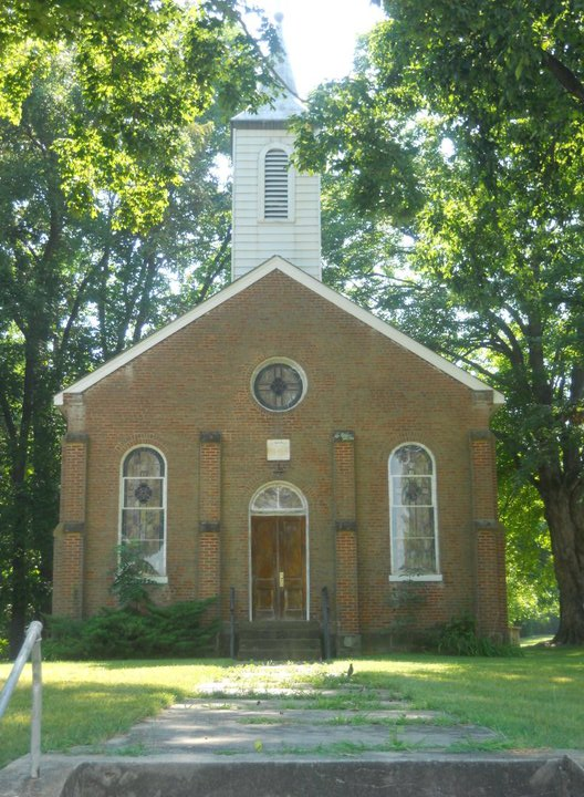 Old Hanover Lutheran Church, Fall 2010 Cape Girardeau, MO